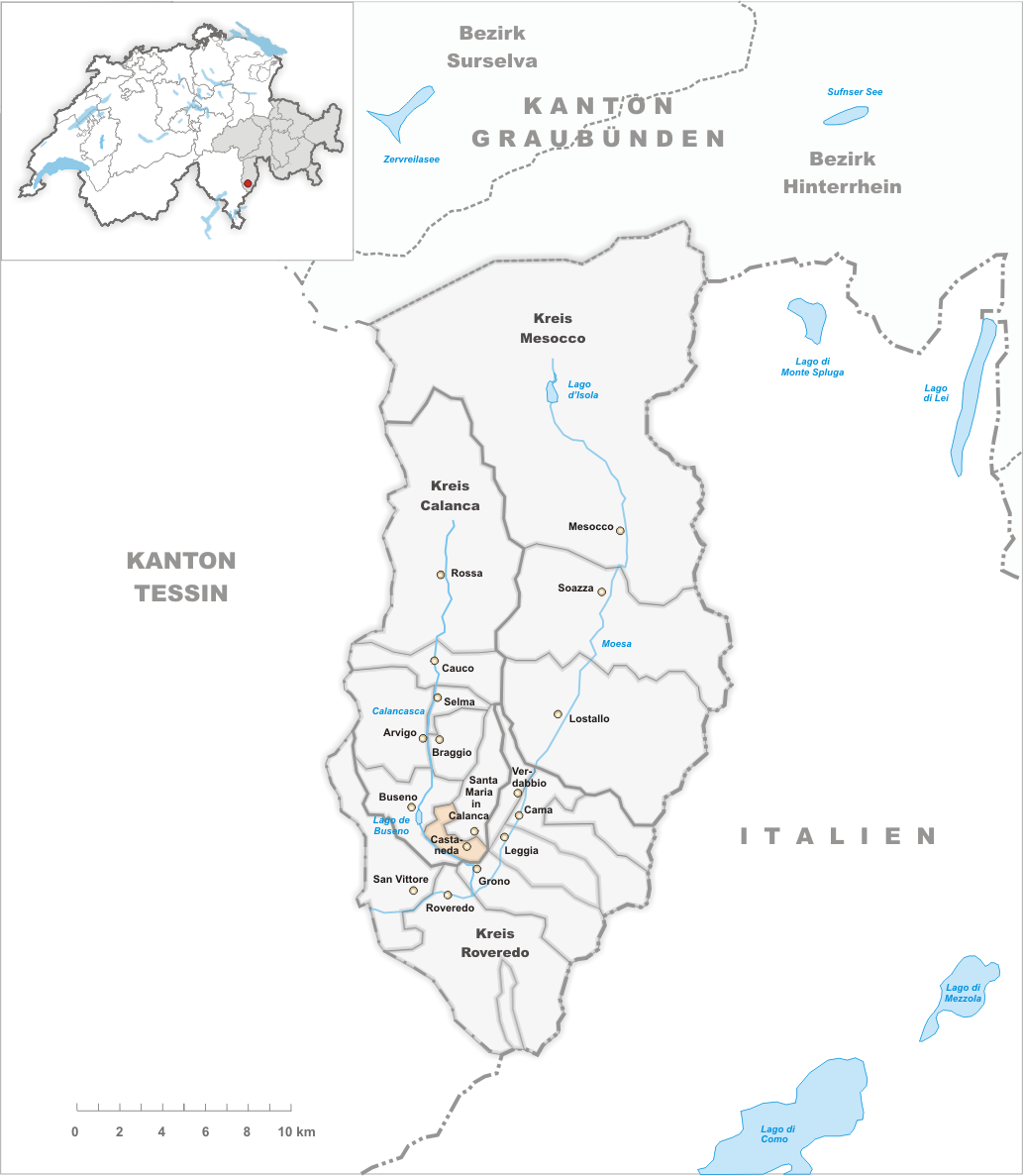 Municipality Castaneda